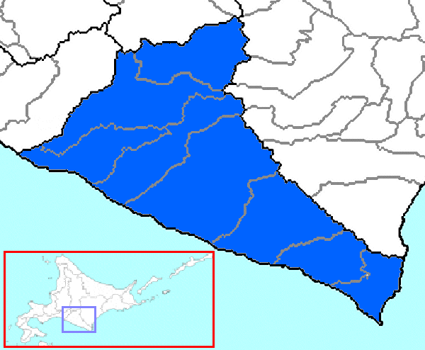 The map of Hidaka Subprefecture in Hokkaido Prefecture, Japan.